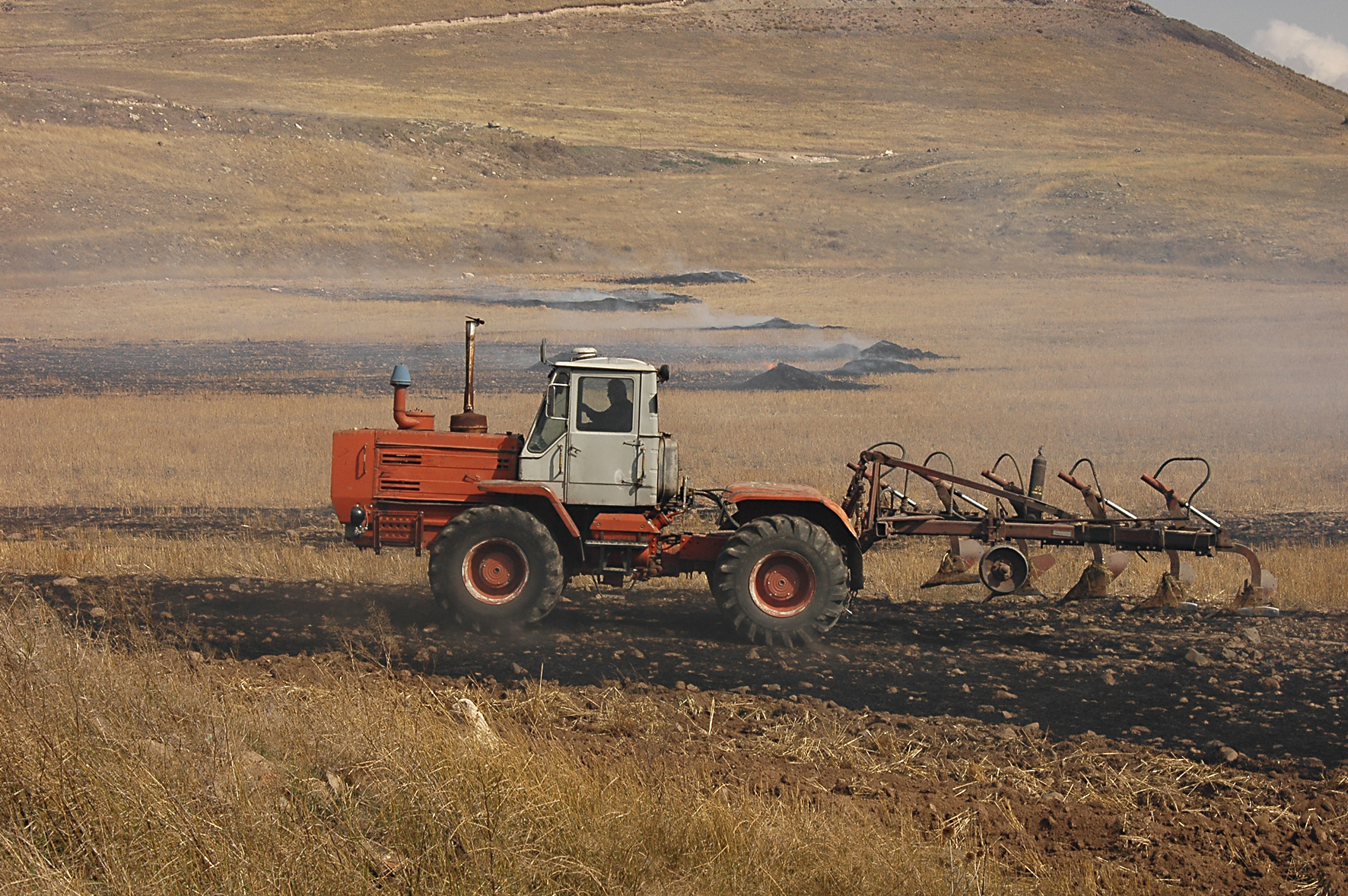 A Soviet era combine harvester in the fields of Armenia.